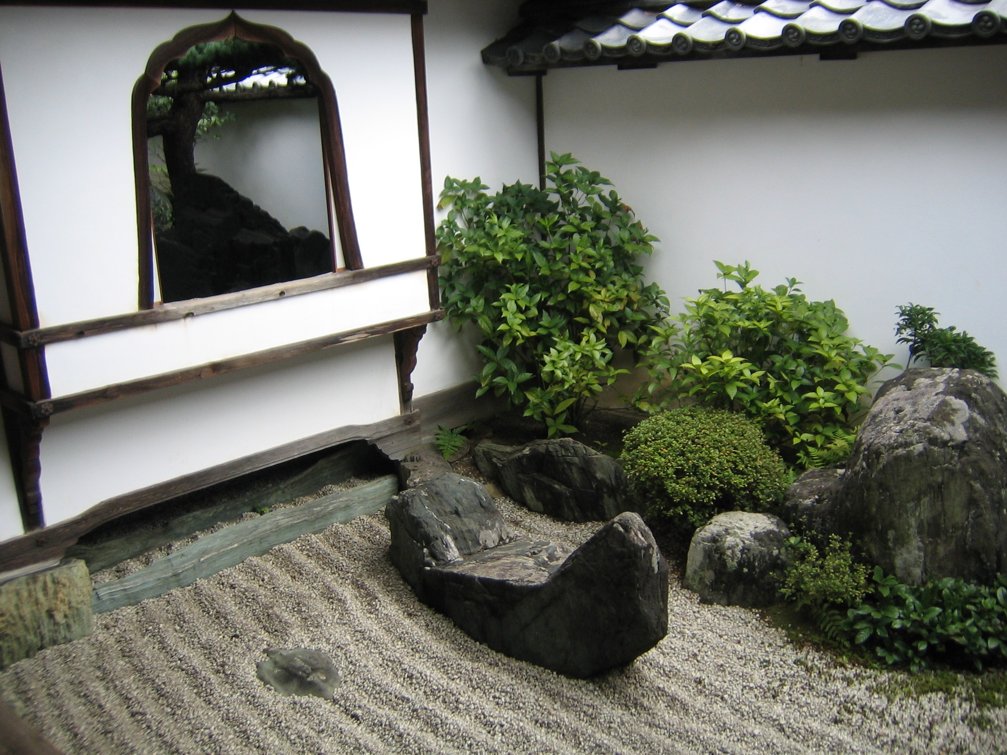 View of the daisen-in stone garden Taikai(ocean) in Daitokuji